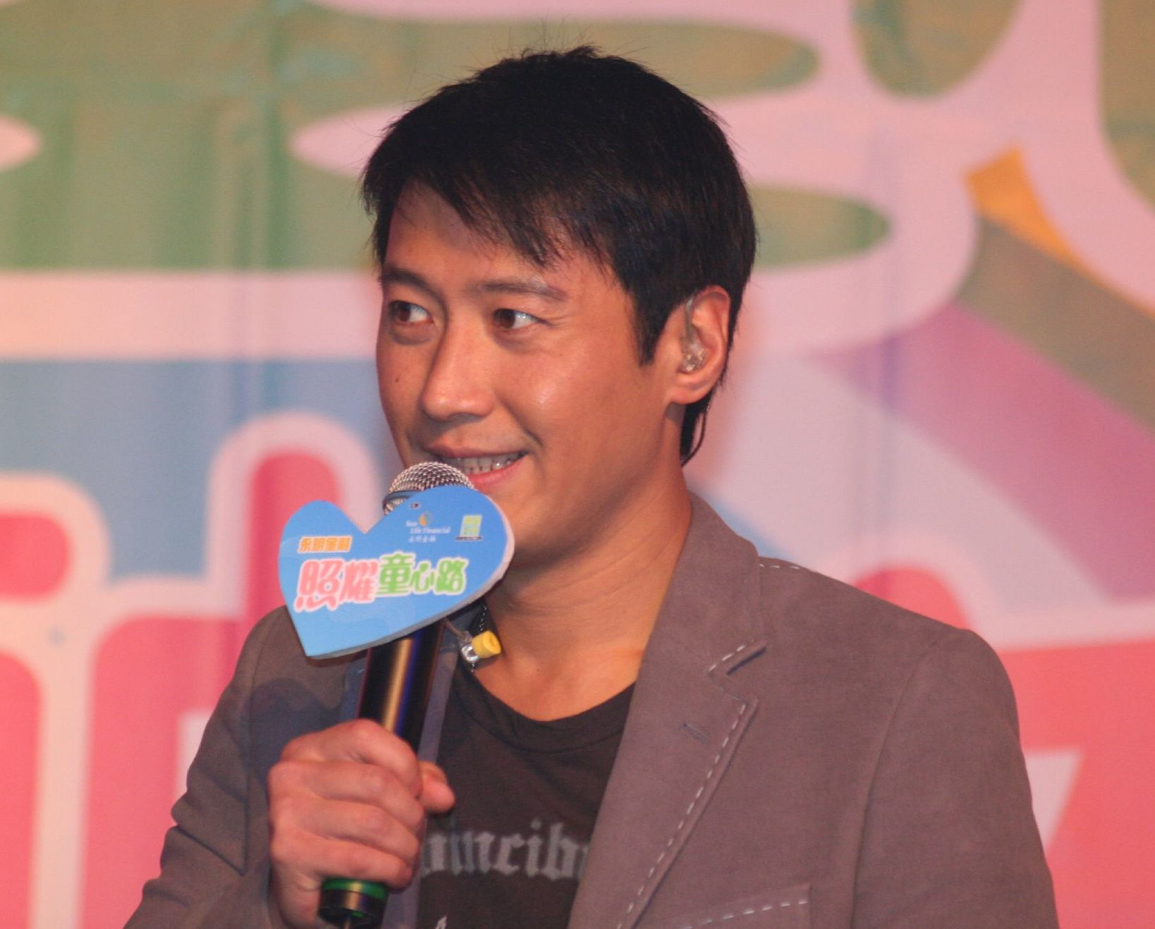 Leon LaiBân-lâm-gú: Lê Bîng. 黎明。Leon Lai